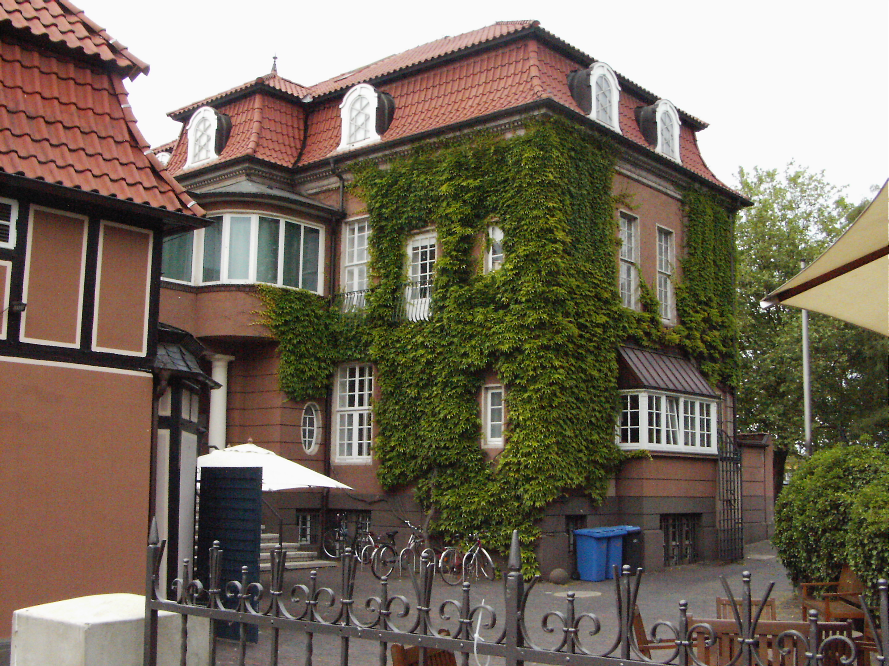 "Haus Coburg": View from the garden